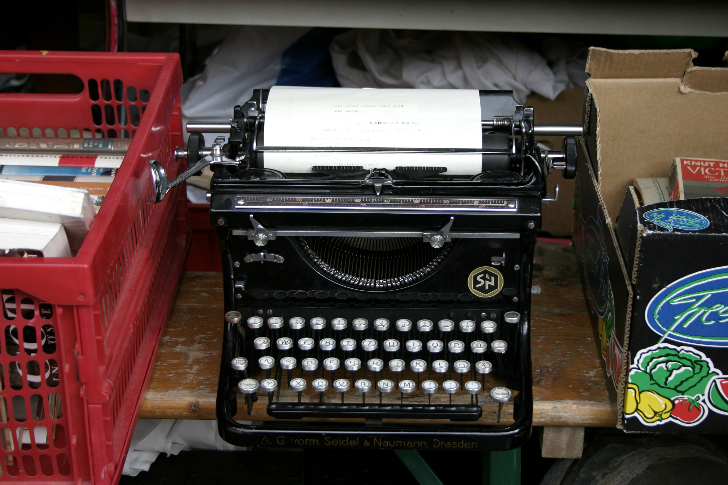 Old typewriter